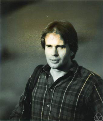 Robert Calderback, American mathematician, at Oberwolfach.